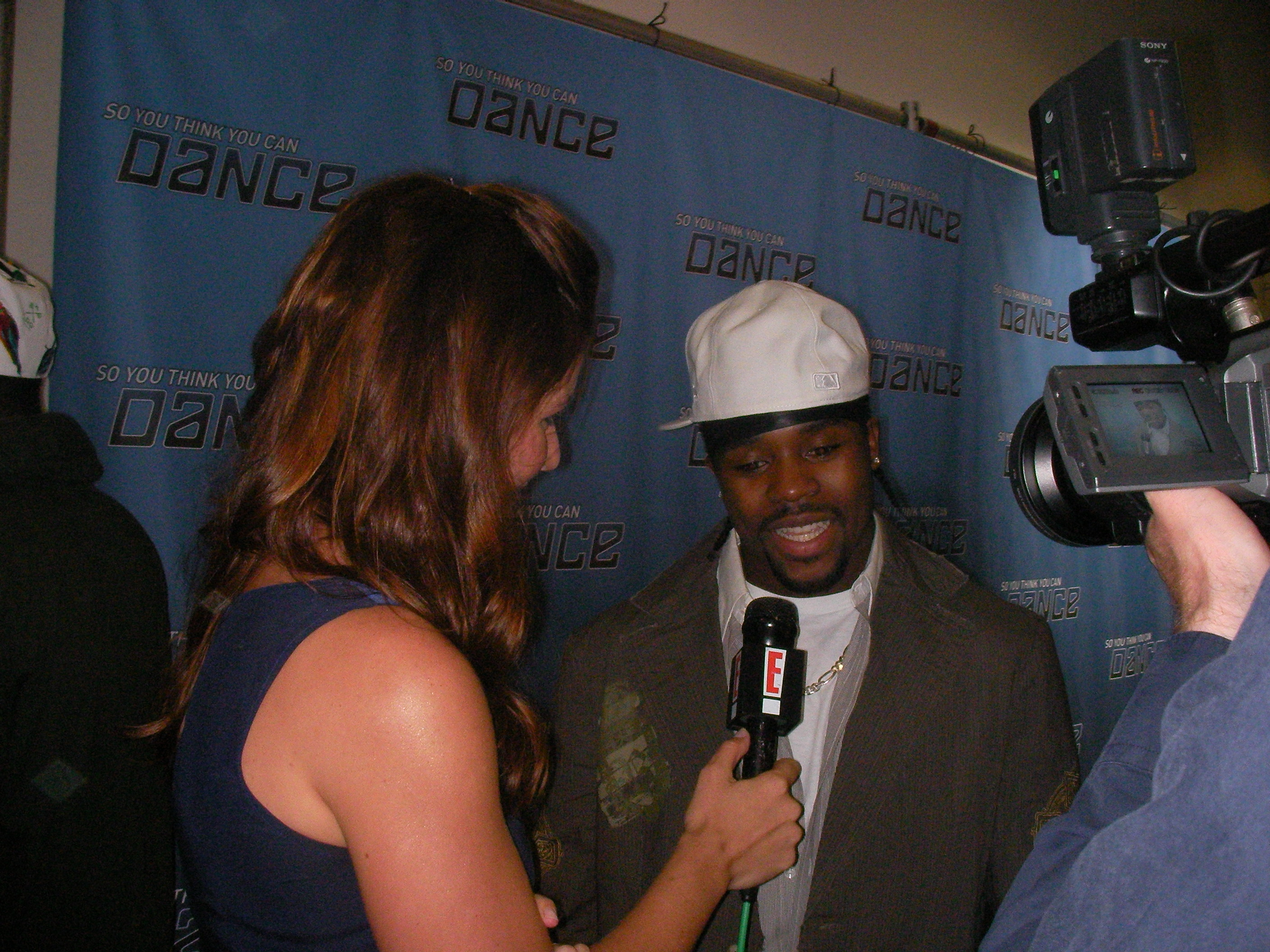 Joshua_Allen being interviewed by Kristin Dos Santos at the "So You Think You Can Dance" season four finale, backstage after the show